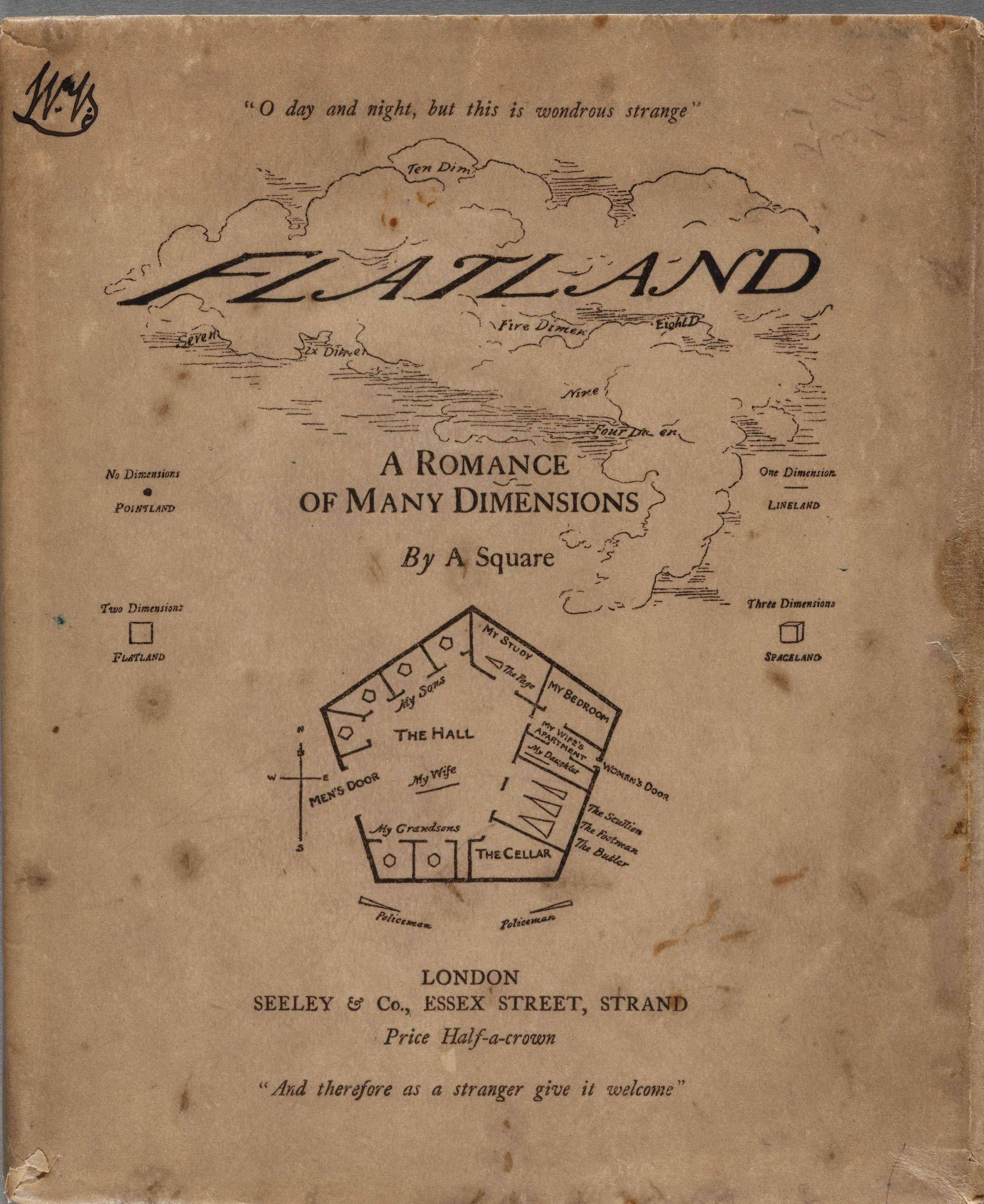 Cover of Flatland: a romance of many dimensions / with illustrations by the author, A Square. By Edwin Abbott Abbott (1838-1926). Published: London: Seeley & Co., 1884. *EC85 Ab264 884f Houghton Library, Harvard University